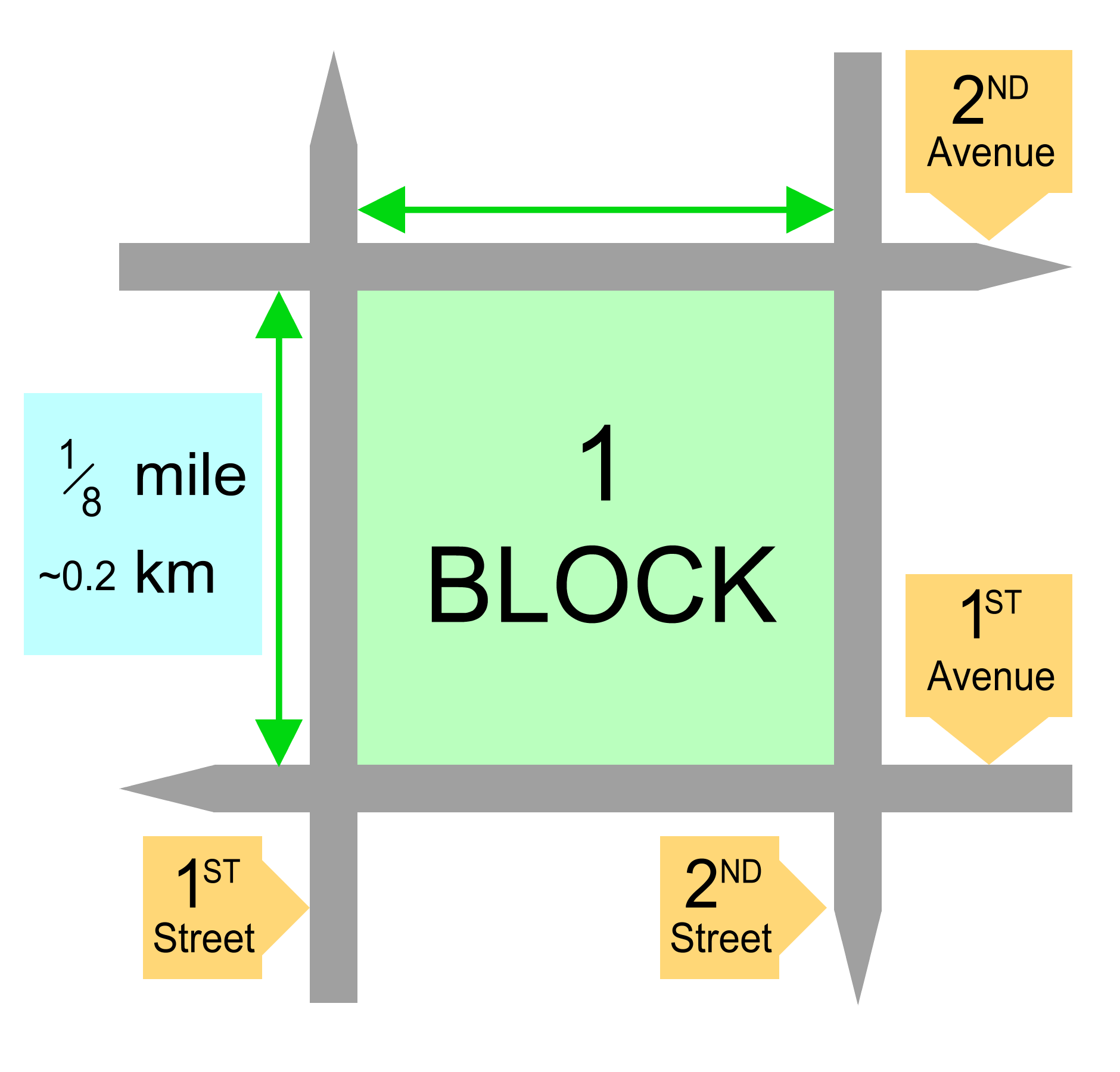 Diagram of 1 city block in Langley, BC.